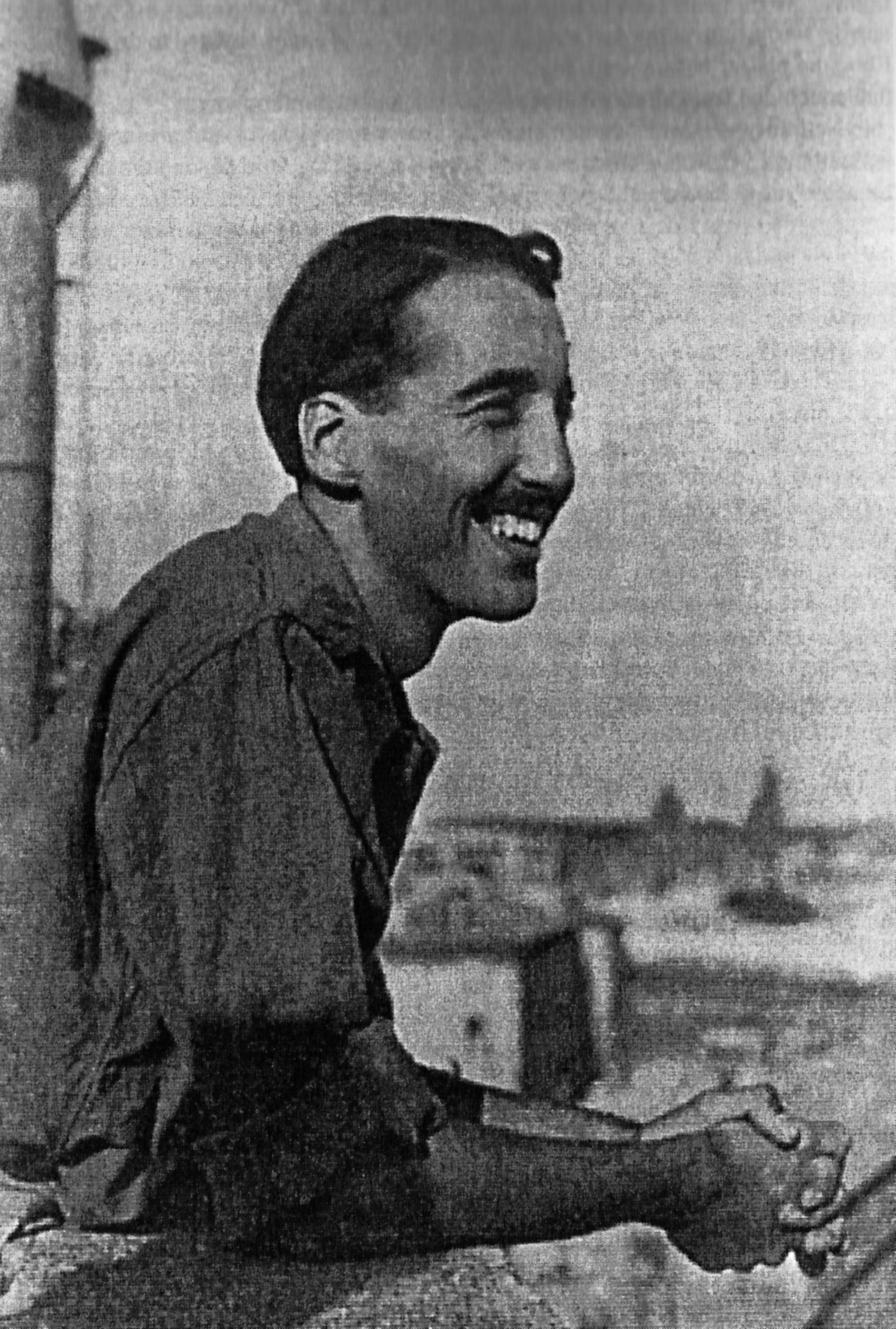 Flying Officer C F C Lee in Vatican City, 1944, soon after The Liberation of Rome